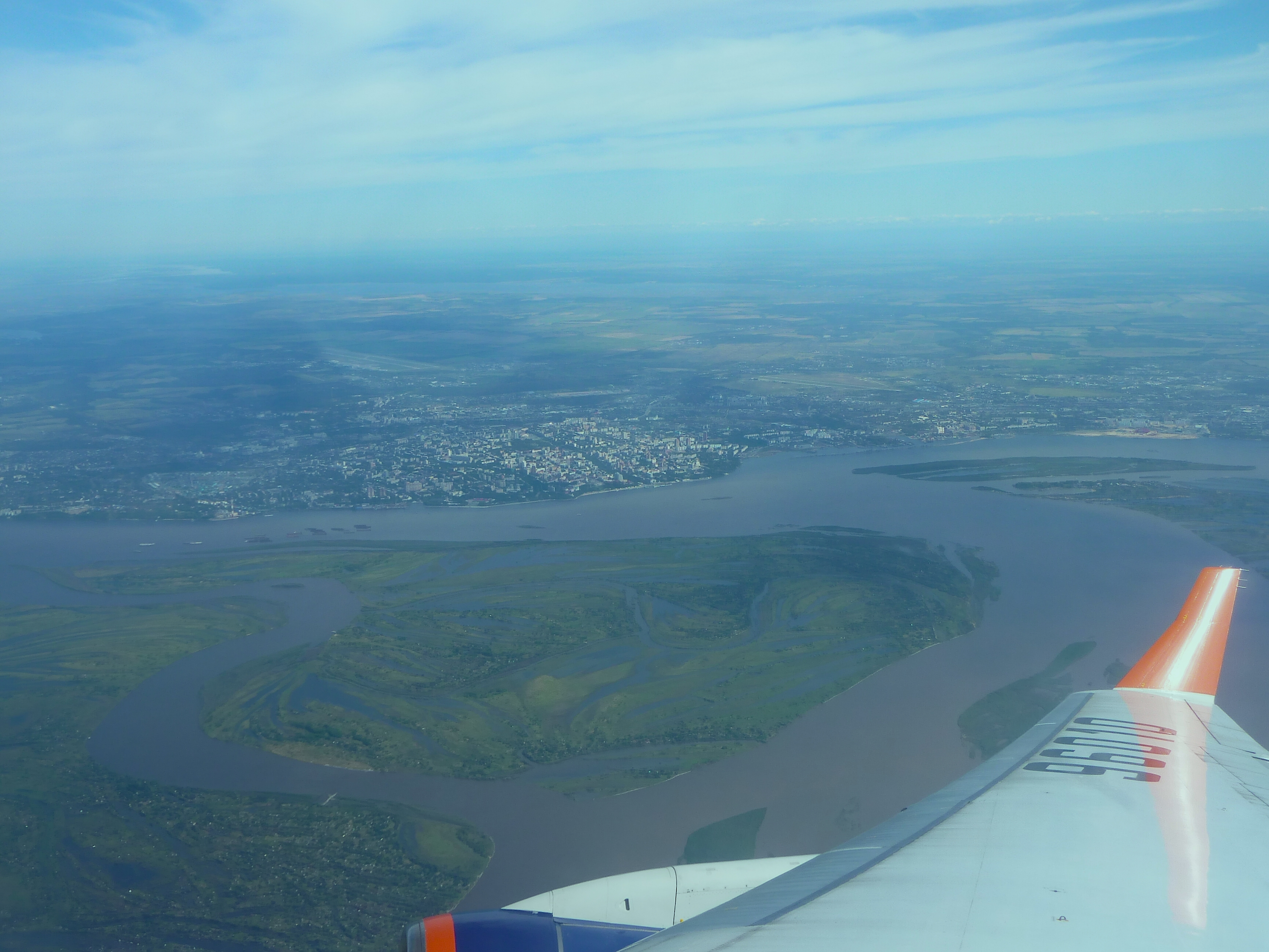 Aerial view of Khabarovsk (Khabarovsk Krai, Russia).